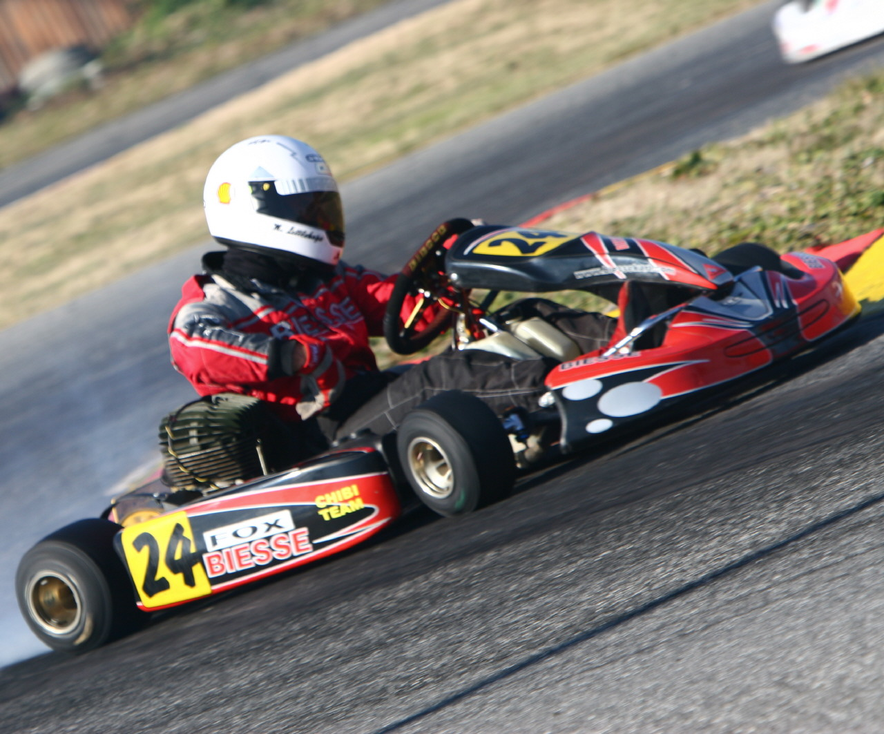 Karting